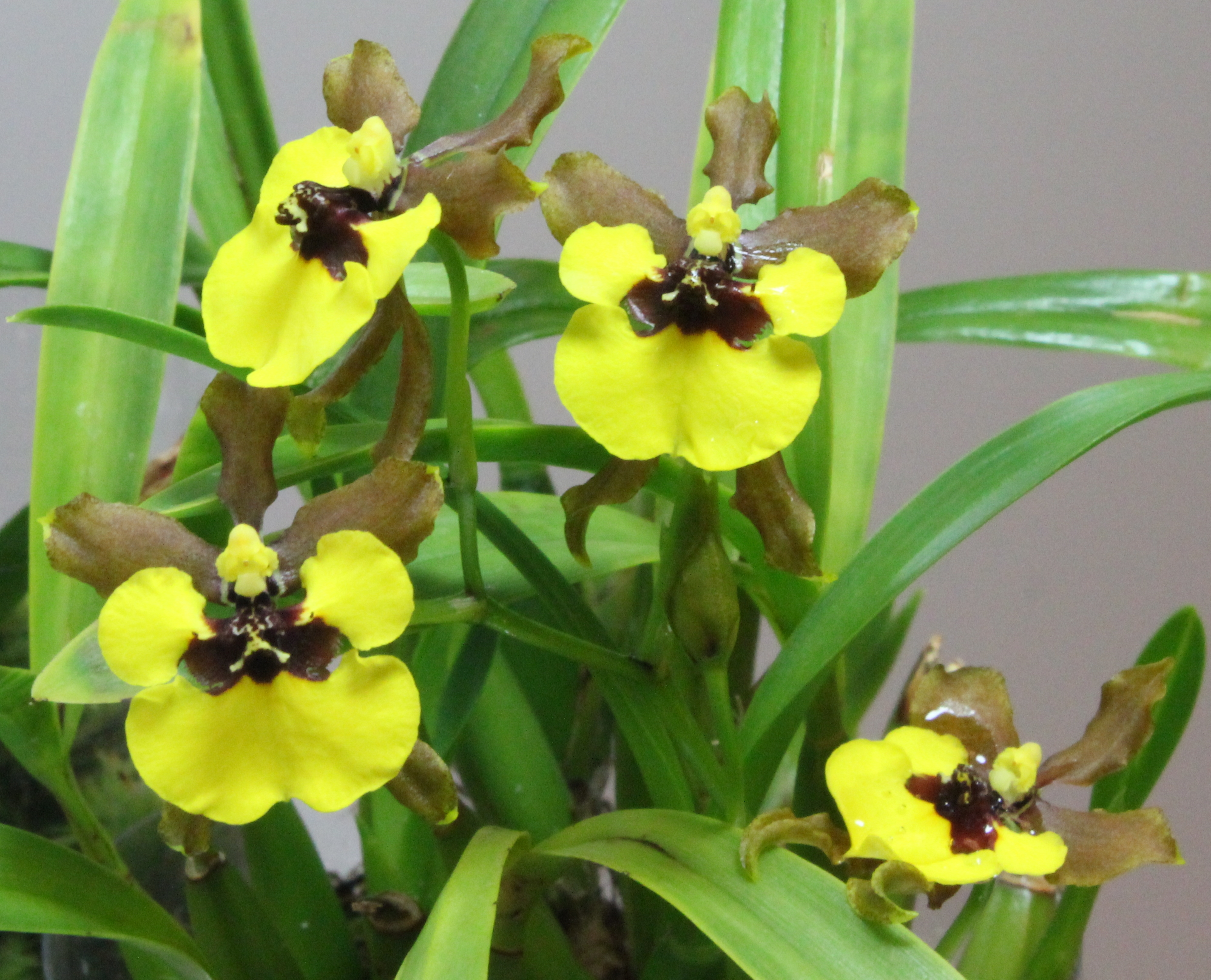 Oncidium croesus – Longwood Station, Boston, Massachusetts